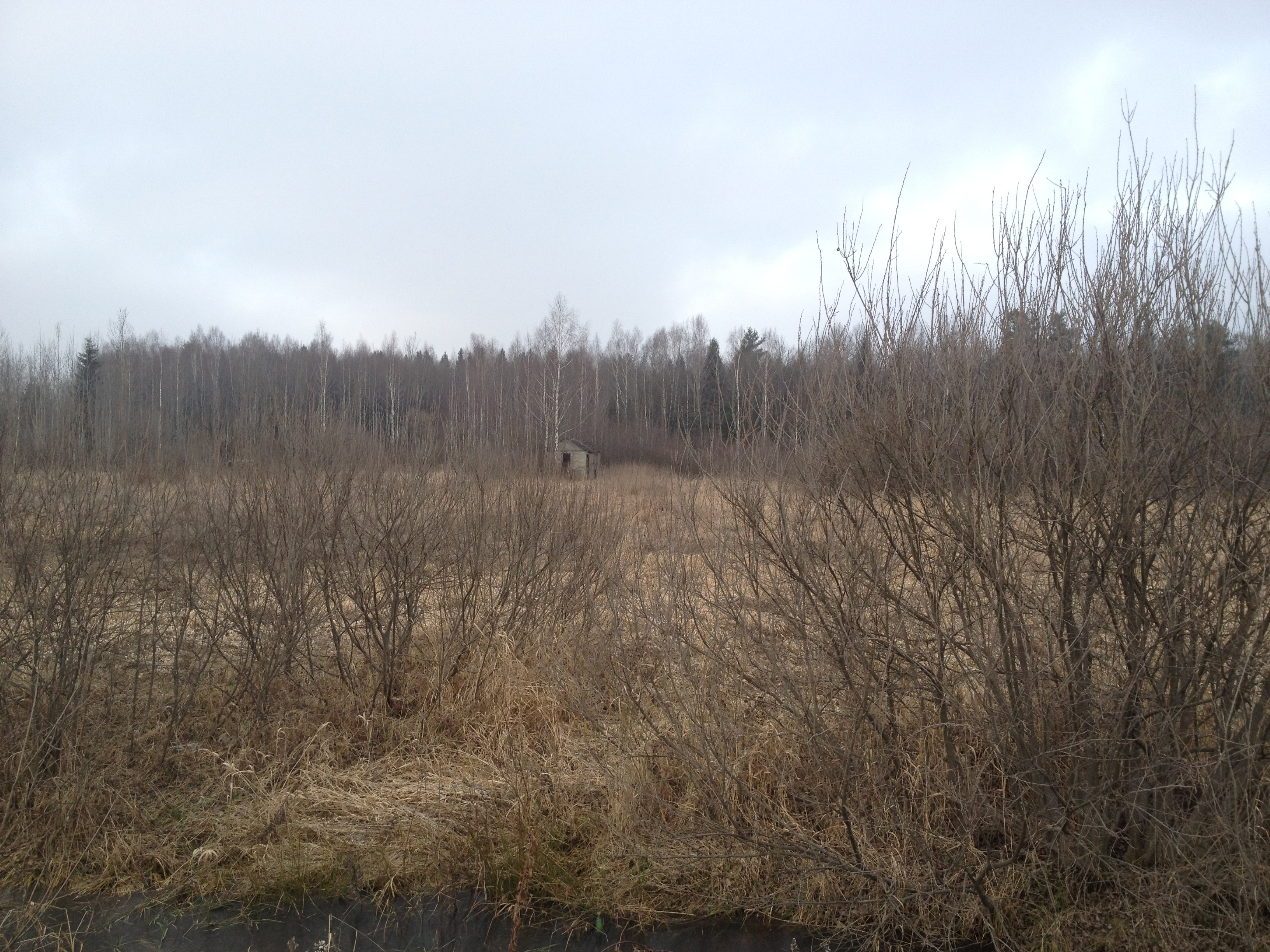 Sorokino (Taldomsky district, Moscow oblast).